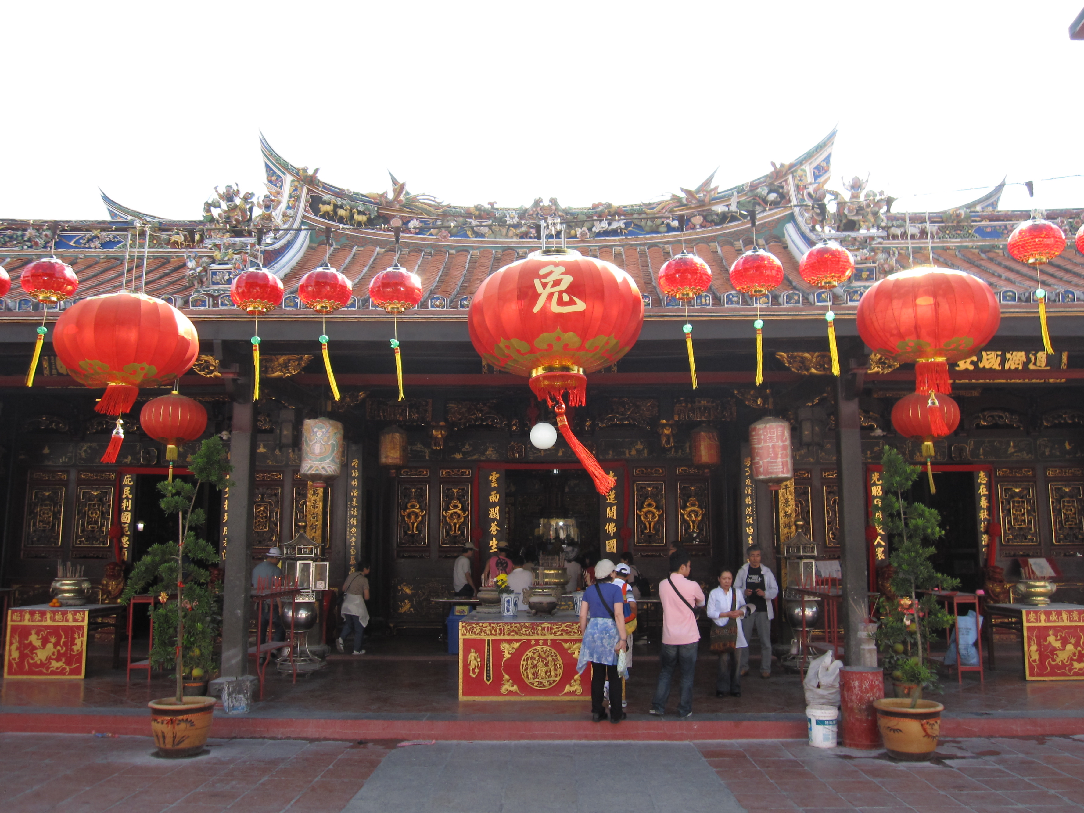 Cheng Hoon Teng Temple in Melaka.